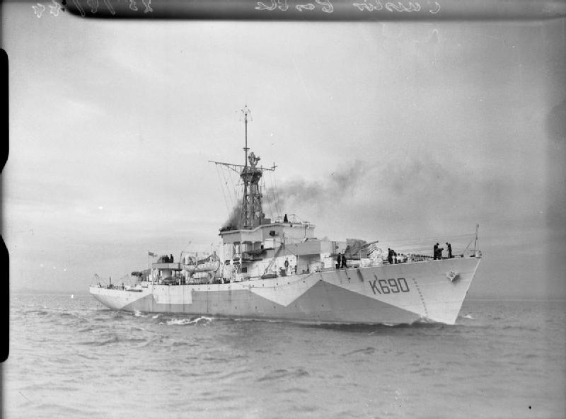 HMS Caistor Castle Underway on completion.